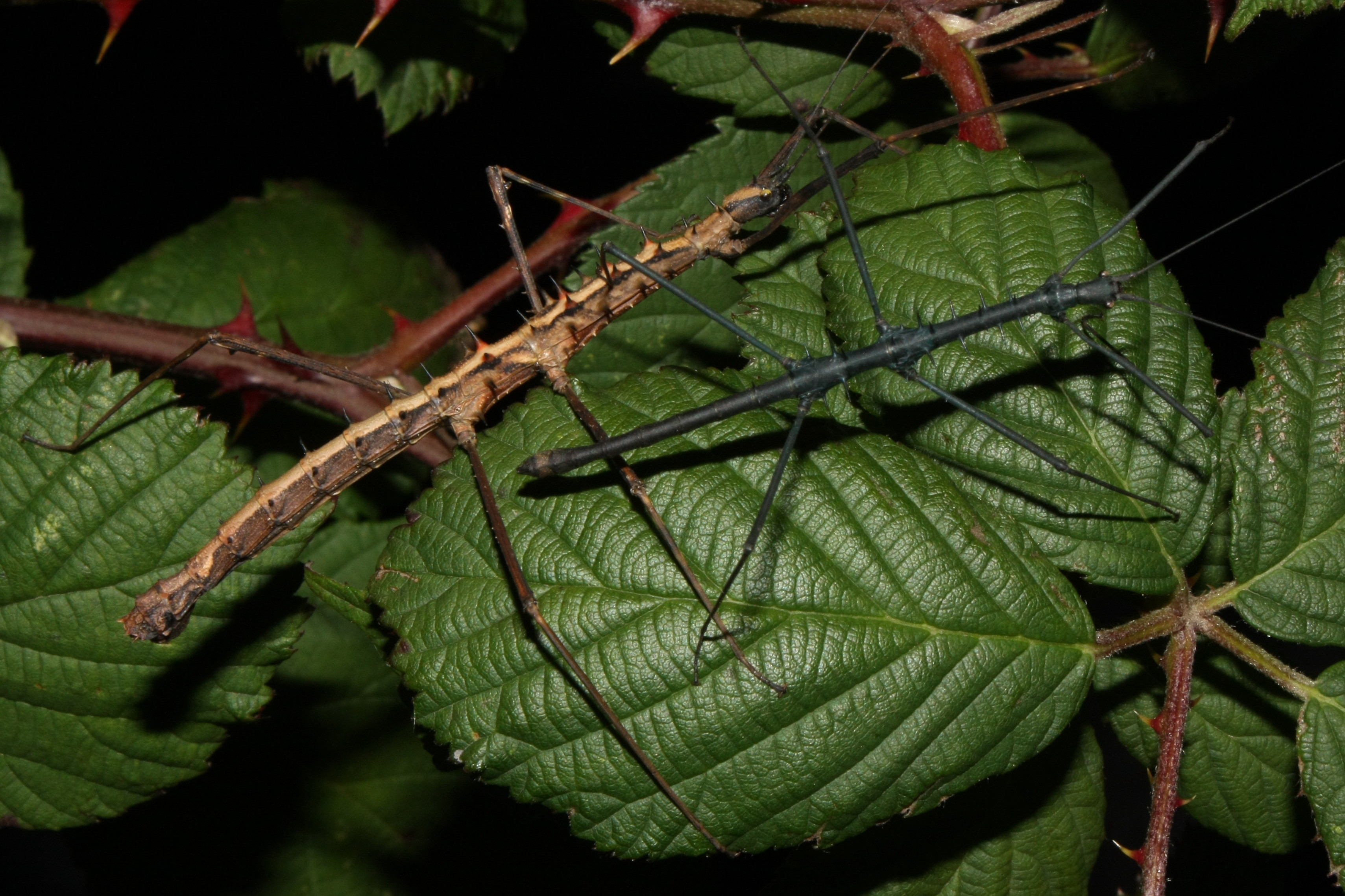 Pair of Acanthomenexenus polyacanthus, dark female and blue male